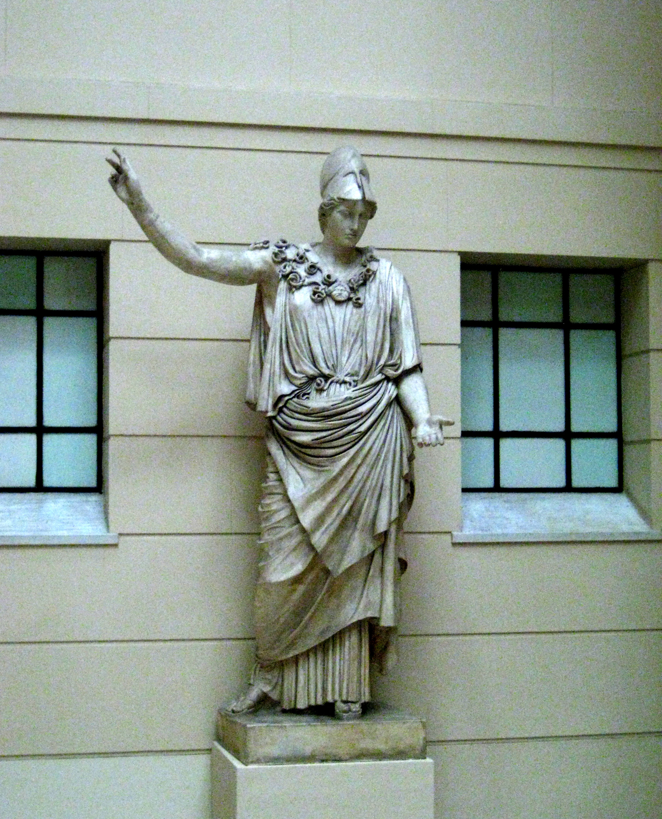 Athena of Velletri